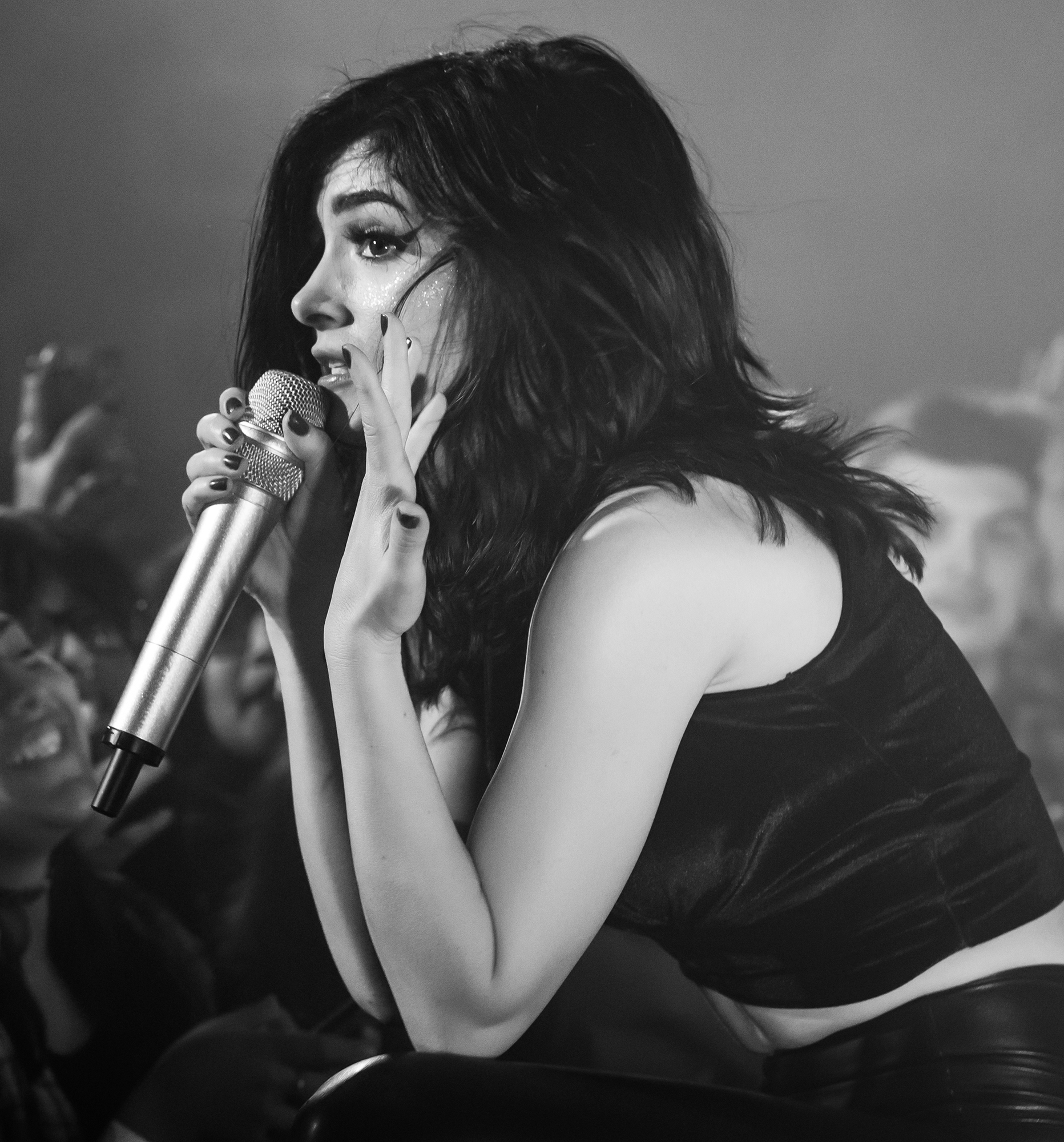 Against The Current performing live at The Roxy Theatre in Hollywood, Los Angeles, California, on Sunday, December 4, 2016.